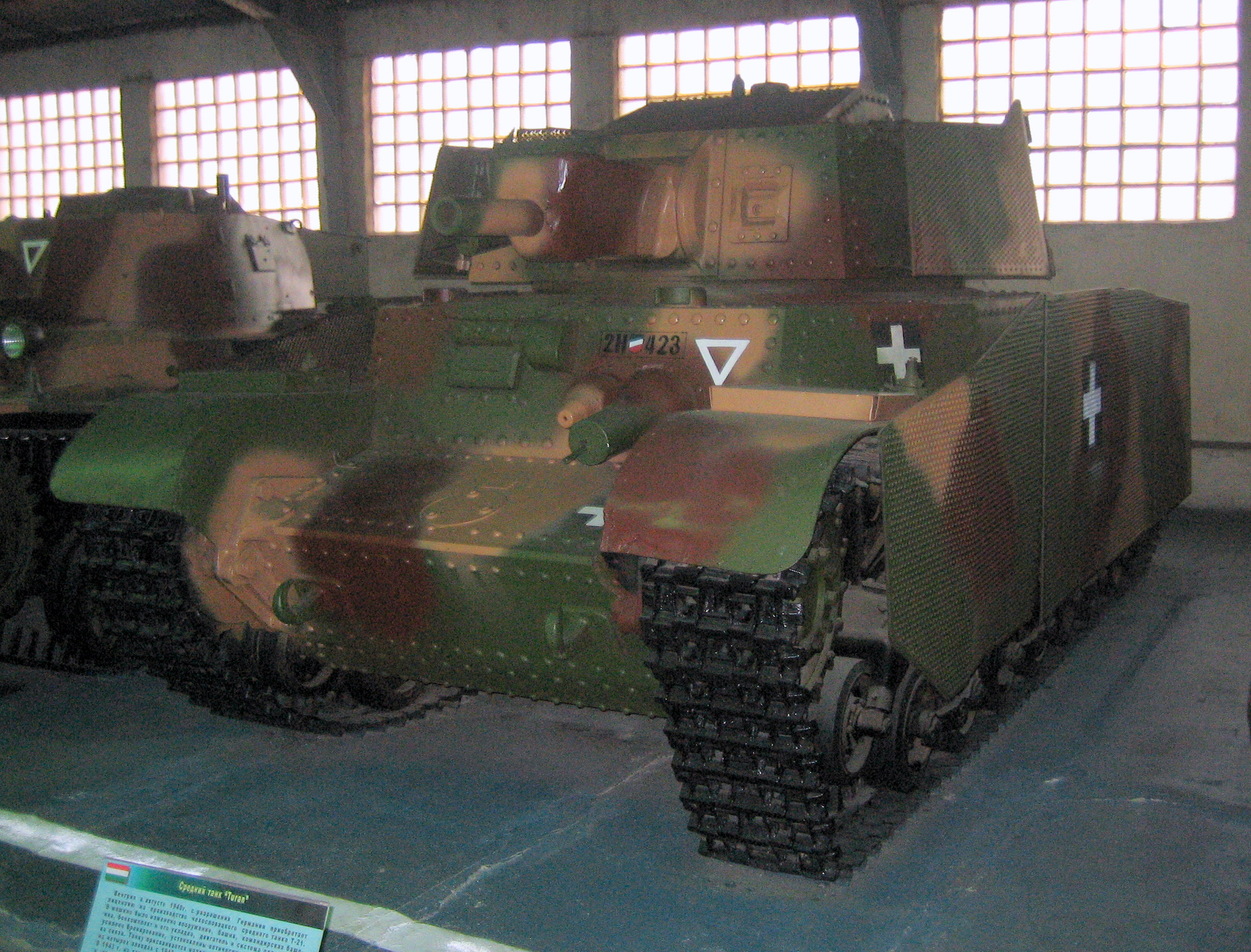 Turan tank at Kubinka Tank Museum